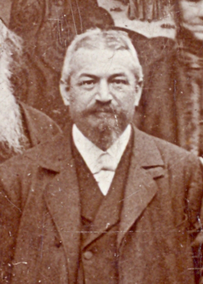 Bulgarian jurist and publicist Prof. Stefan Bobchev (1853-1940). A fragment from a larger photo made in the Rila Monastery. Photo Karastoaynov, 1896